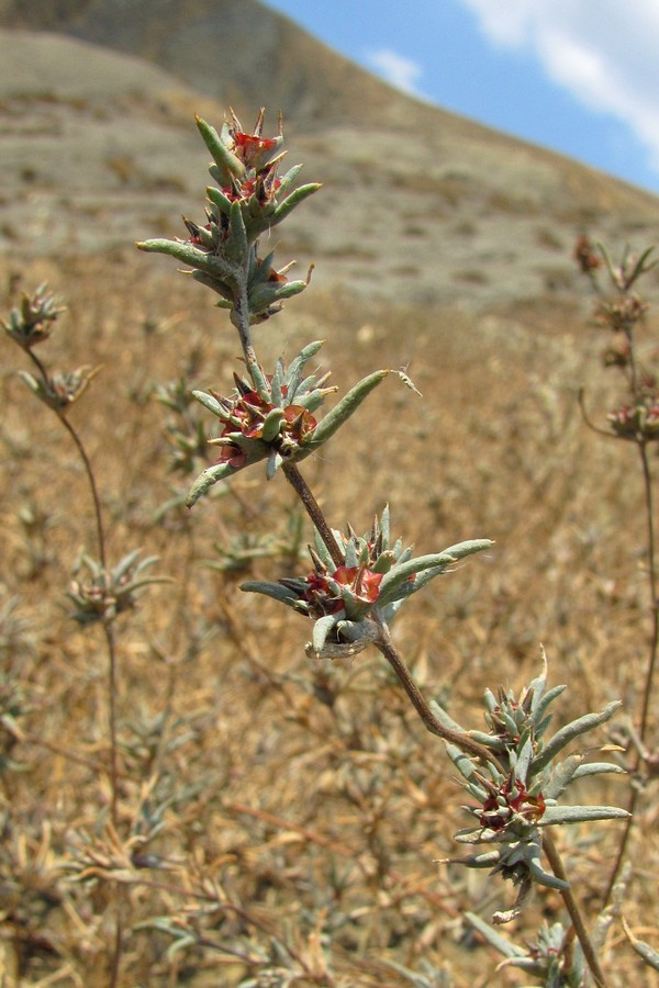 Pyankovia brachiata. Crimea, Feodosiya municipality, Mt. Jan-Kutaran